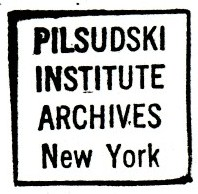 Logo of Józef Piłsudski Institute of America Archives